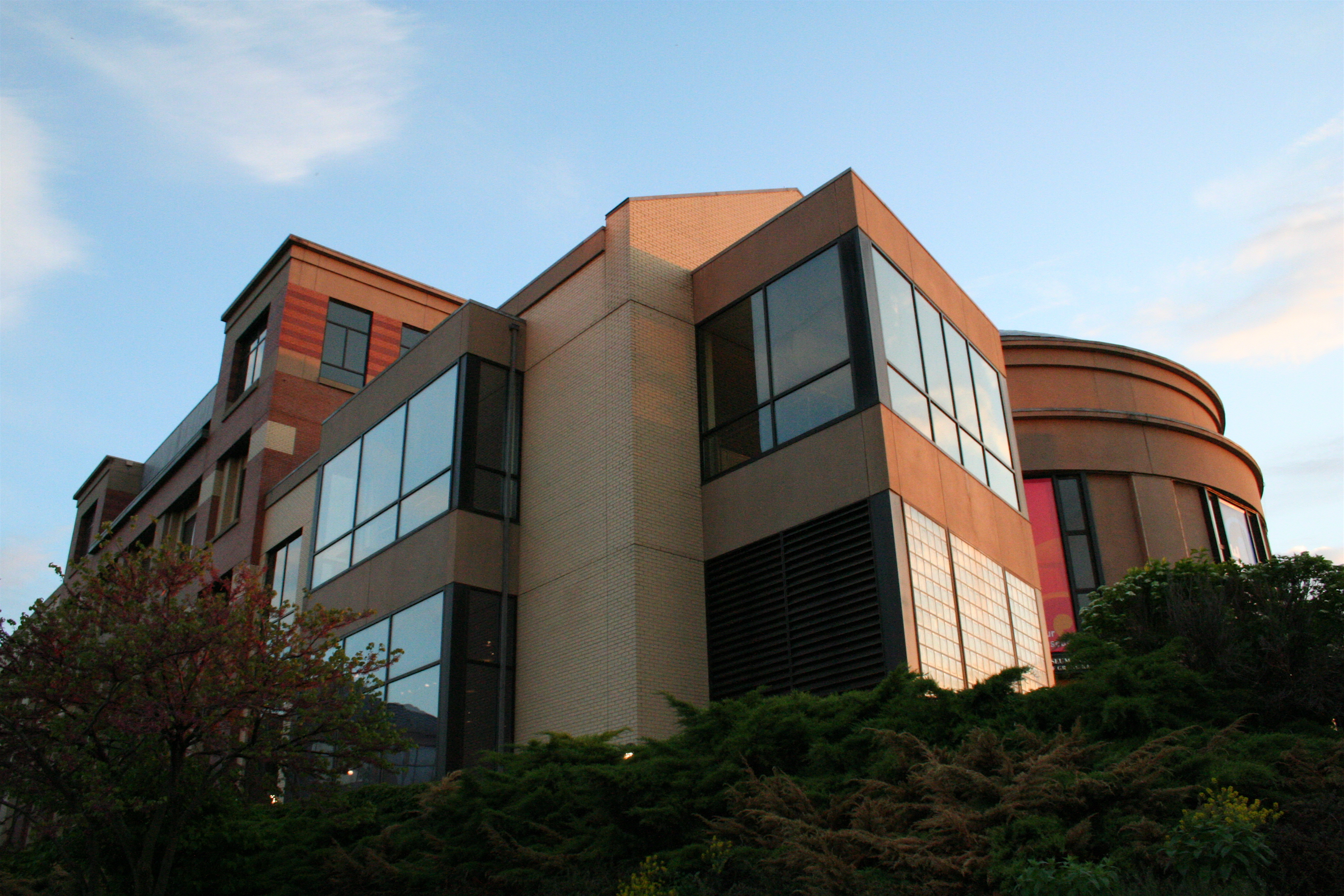 The Van Andel Museum Center. Grand Rapids, Michigan